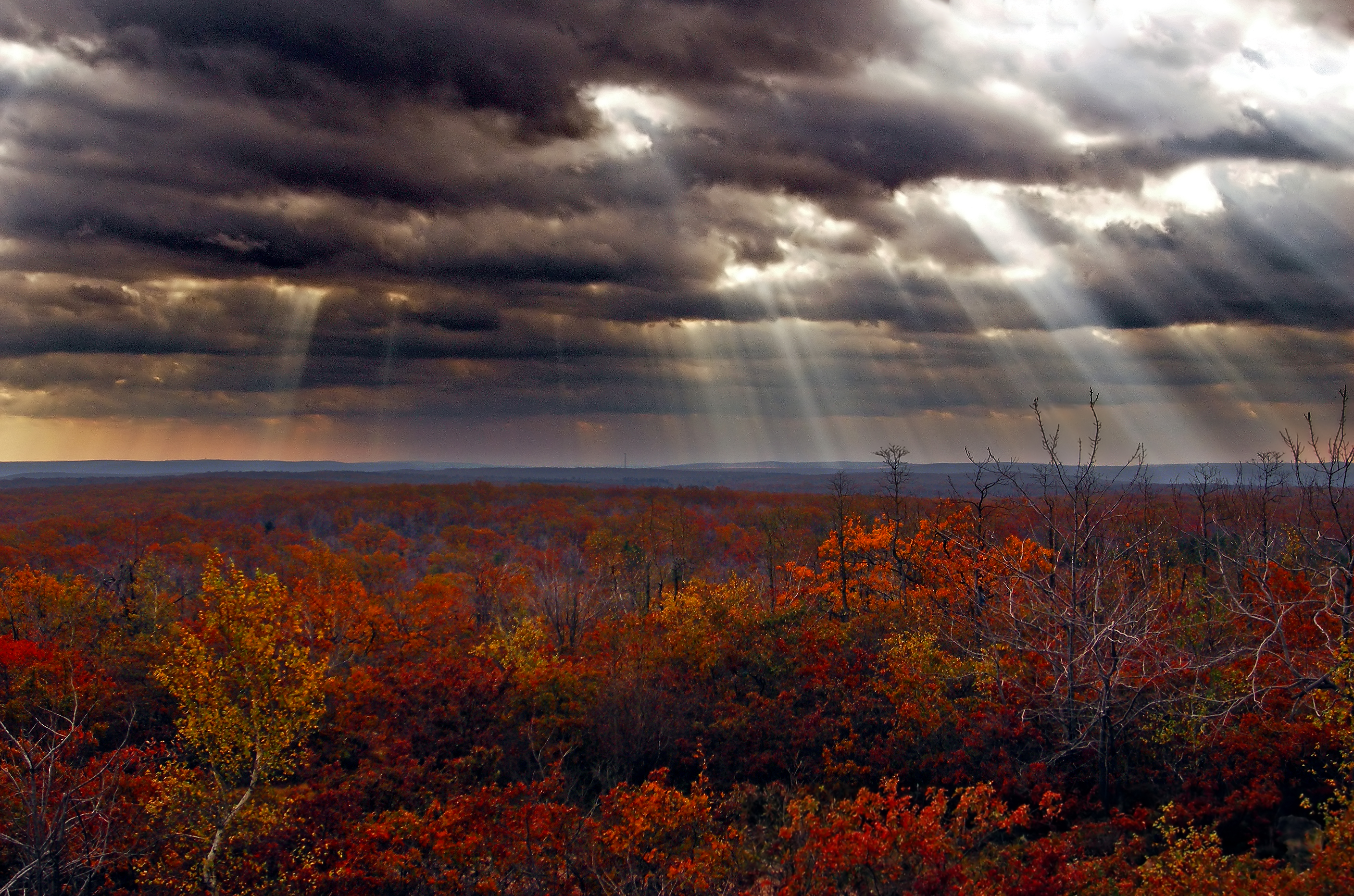 Looking southwest from Pine Hill, Lackawanna State Forest, Luzerne and Lackawanna Counties (elevation approximately 2265 feet [690 meters]).